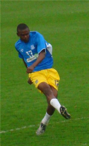 Theo Robinson warming up against Northampton Town